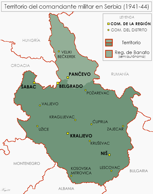 Map of the Territory of the German Military Commander in Serbia. Showing area and district commands and the Banat autonomous region in spanish.